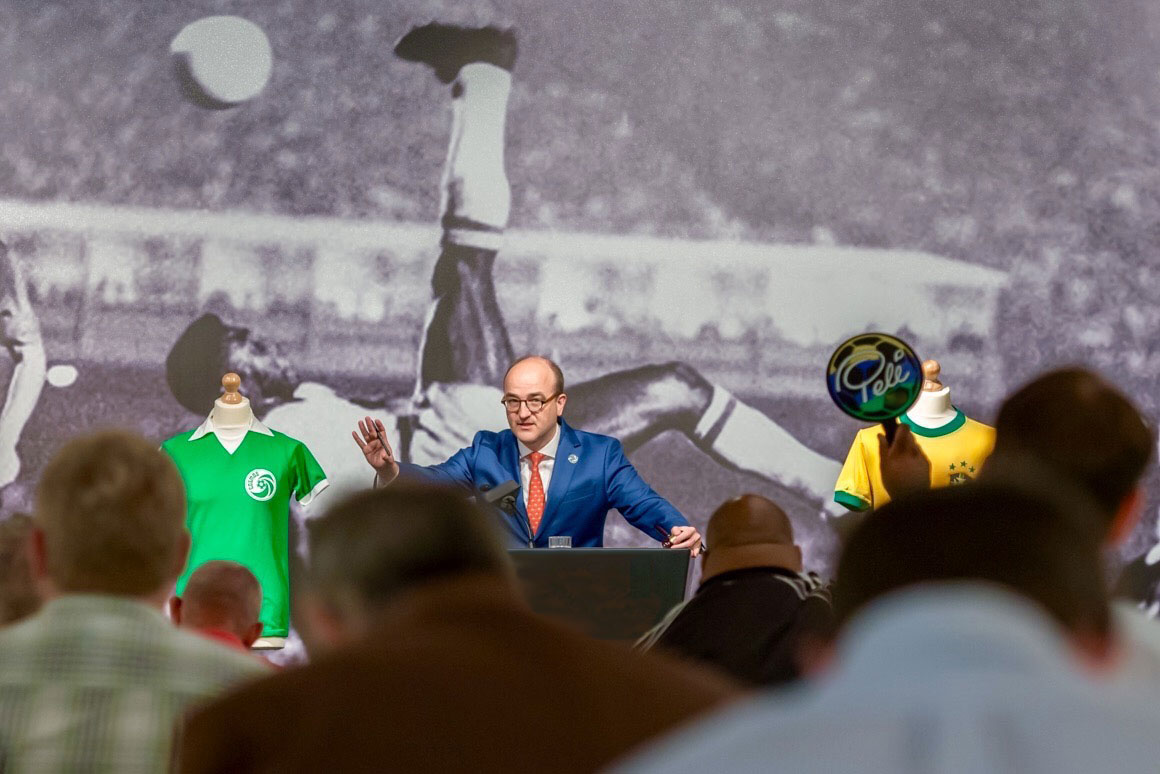 All items in the auction sold. 1958 World Cup medal sold for £200,000